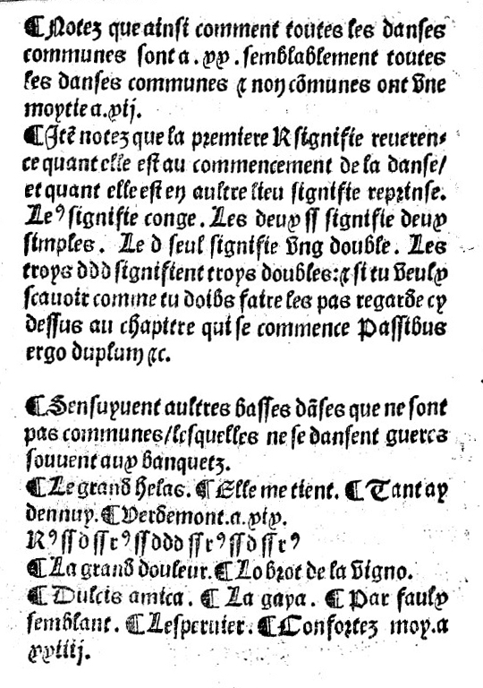 Antonius Arena dance book, basse dance letter tablature explanation